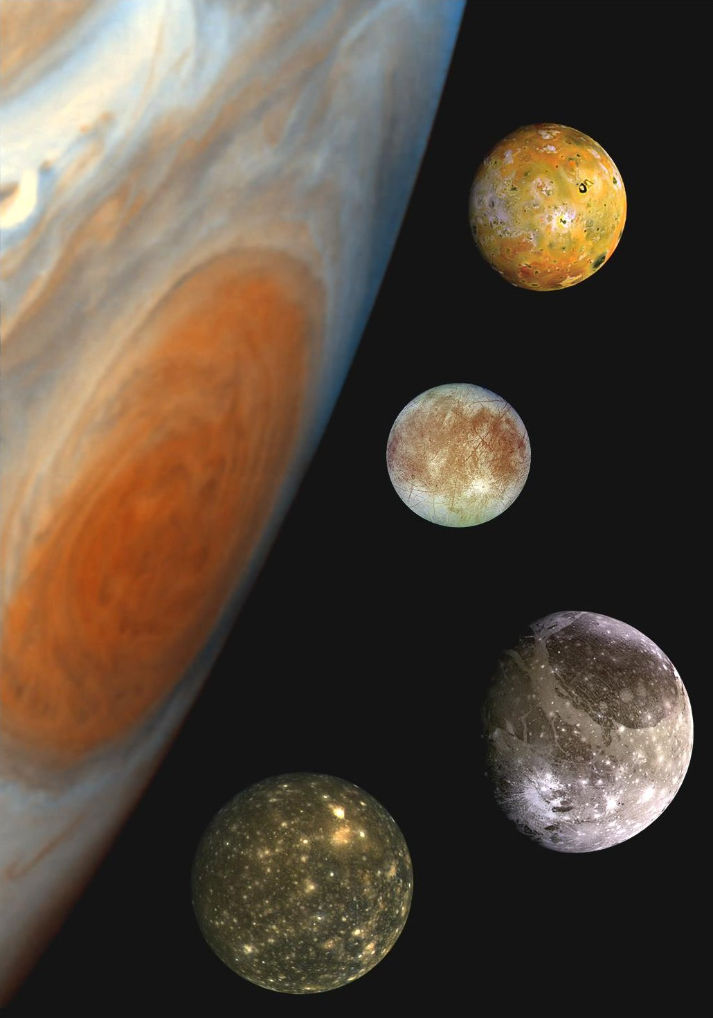 This "family portrait," a composite of the Jovian system, includes the edge of Jupiter with its Great Red Spot, and Jupiter's four largest moons, known as the Galilean satellites. From top to bottom, the moons shown are Io, Europa, Ganymede and Callisto. The Great Red Spot, a storm in Jupiter's atmosphere, is at least 300 years old. Winds blow counterclockwise around the Great Red Spot at about 400 kilometers per hour (250 miles per hour). The storm is larger than one Earth diameter from north to south, and more than two Earth diameters from east to west. In this oblique view, the Great Red Spot appears longer in the north-south direction. Europa, the smallest of the four moons, is about the size of Earth's moon, while Ganymede is the largest moon in the solar system. North is at the top of this composite picture in which the massive planet and its largest satellites have all been scaled to a common factor of 15 kilometers (9 miles) per picture element. The Solid State Imaging (CCD) system aboard NASA's Galileo spacecraft obtained the Jupiter, Io and Ganymede images in June 1996, while the Europa images were obtained in September 1996. Because Galileo focuses on high resolution imaging of regional areas on Callisto rather than global coverage, the portrait of Callisto is from the 1979 flyby of NASA's Voyager spacecraft.